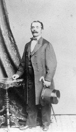 Studio portrait of Henry E. Steinway (born Heinrich Engelhard Steinweg) standing next to a table, Manhattan, New York City.